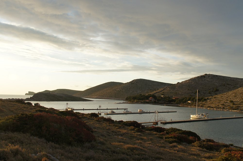 Marina Piškera lies between the islands Piškera and Panitula Velika, on the northern coast of the island Panitula vela. Marina gives very good protection of the north wind (bora).